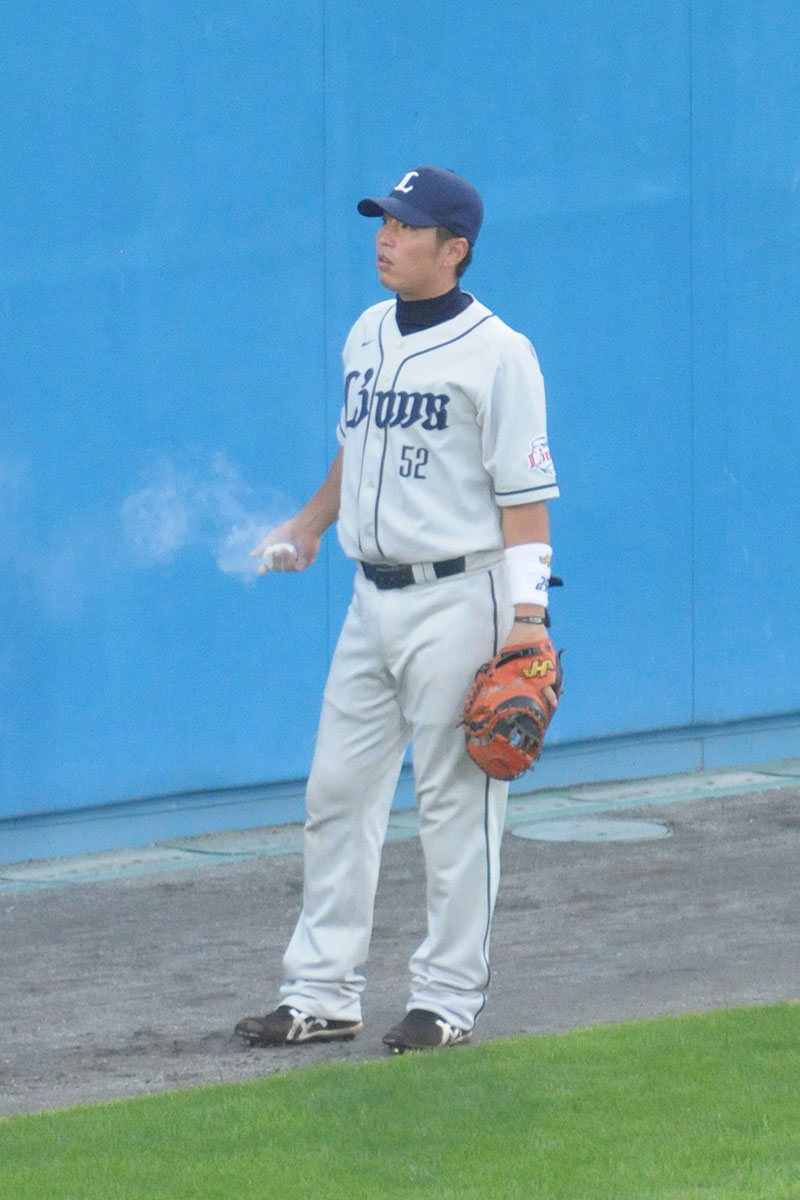 Shingo Takeyama, catcher of the Saitama Seibu Lions, at Akita Prefectural Baseball Stadium.